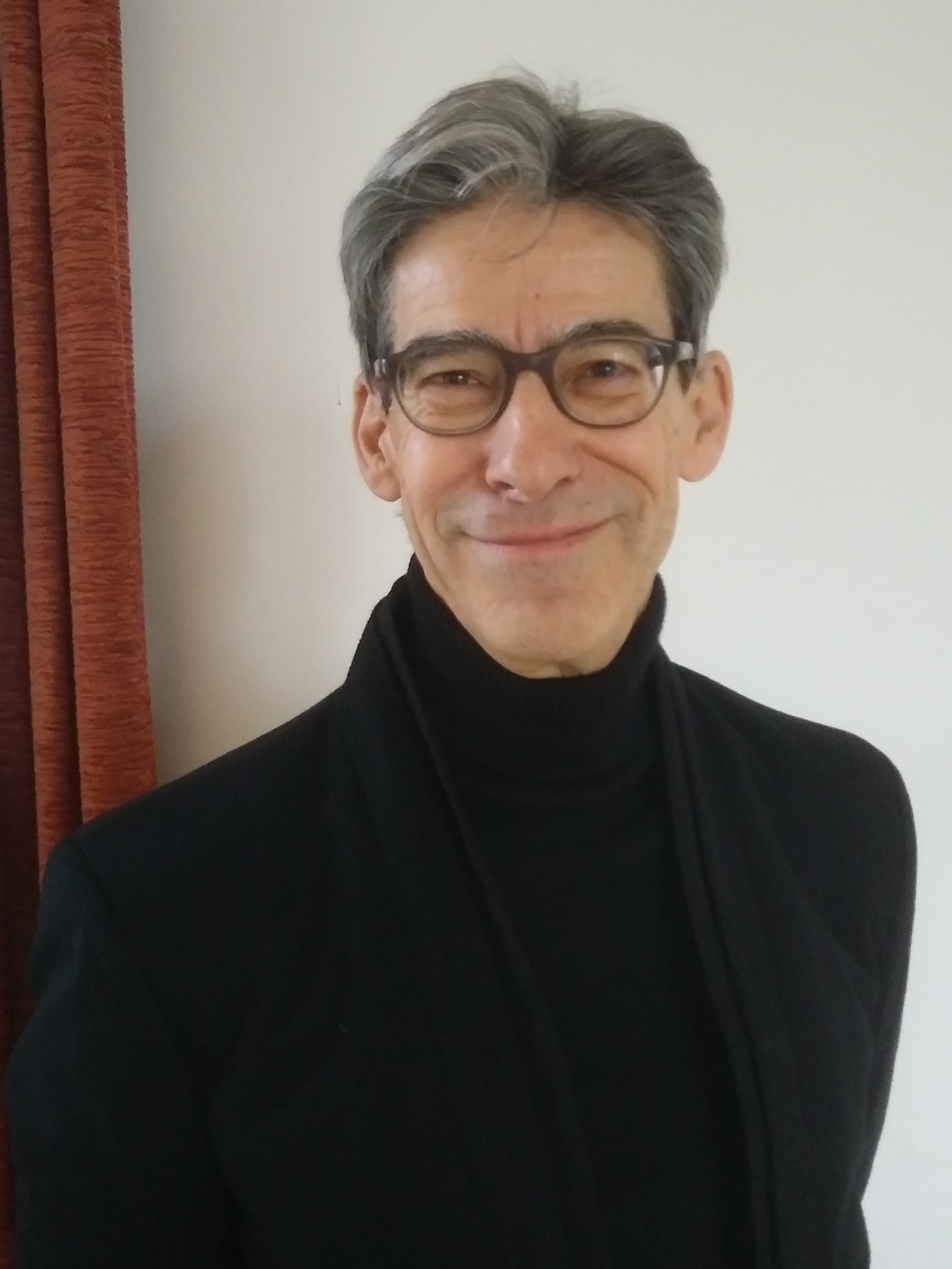 Portrait of German theologian Martin George, taken by User:Mahagaja in Berlin on 2018-03-04.